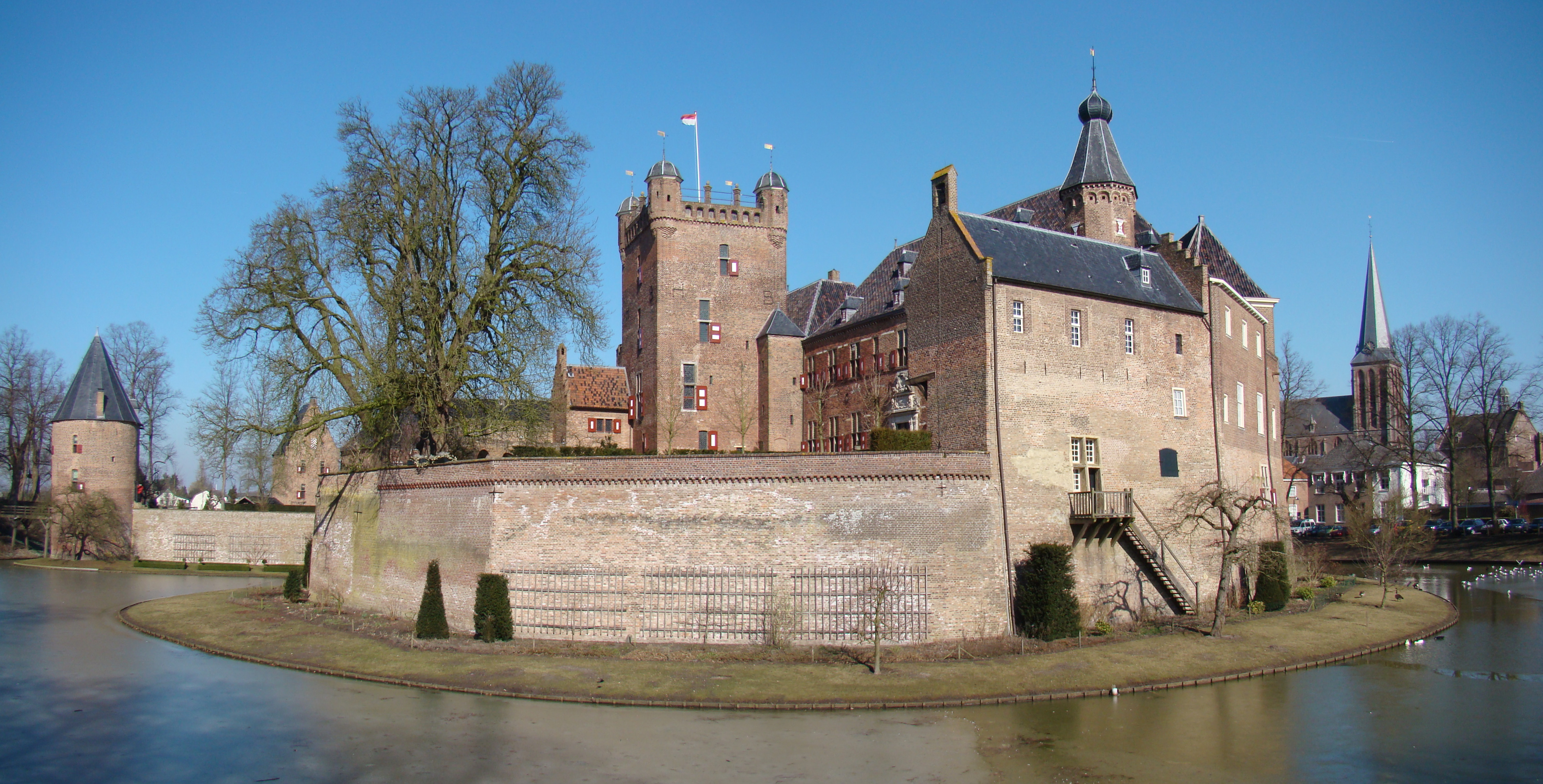 Castle Bergh at 's Heerenberg, Netherlands